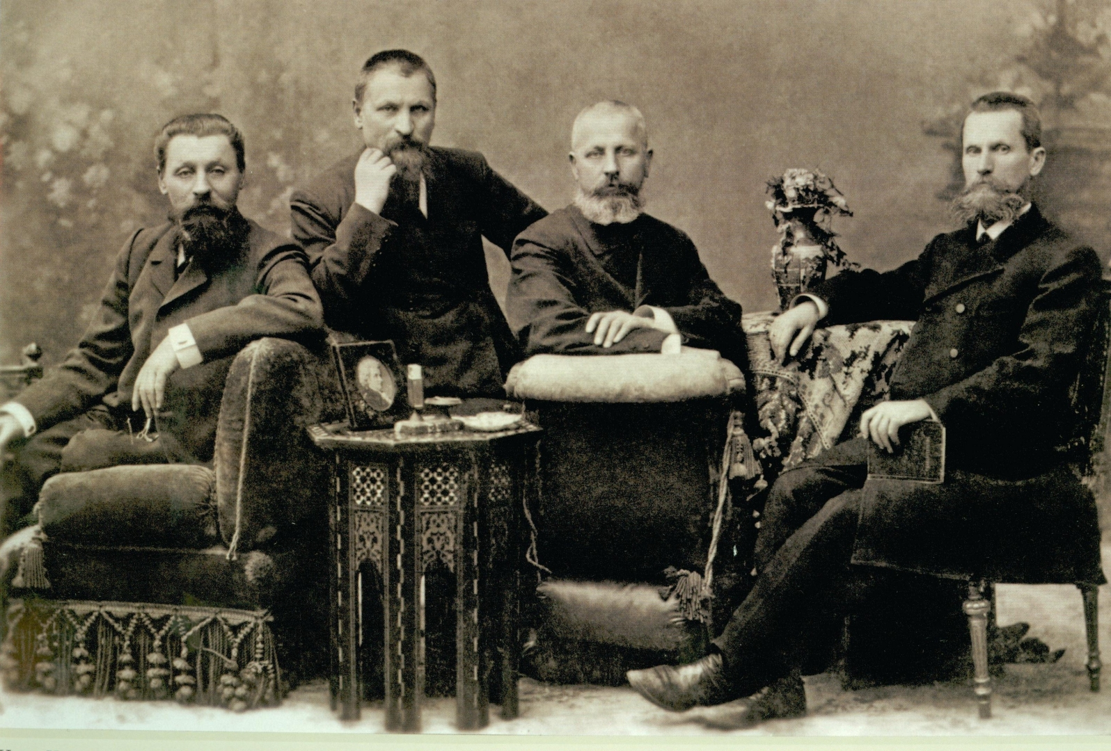 Mashtakovs were Barnaul and Novonikolayevsky merchants.